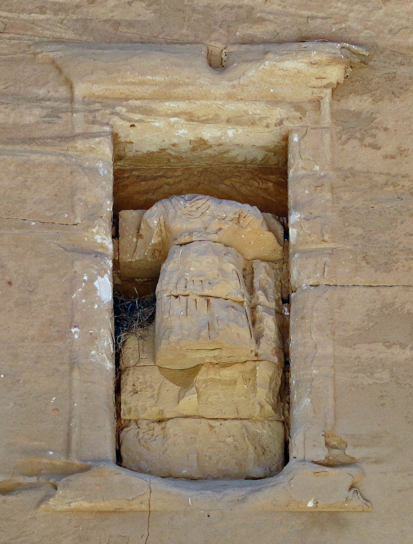 The sculpture of the soldier in the center niche of the facade of the Soldier Tomb, Petra, Jordan